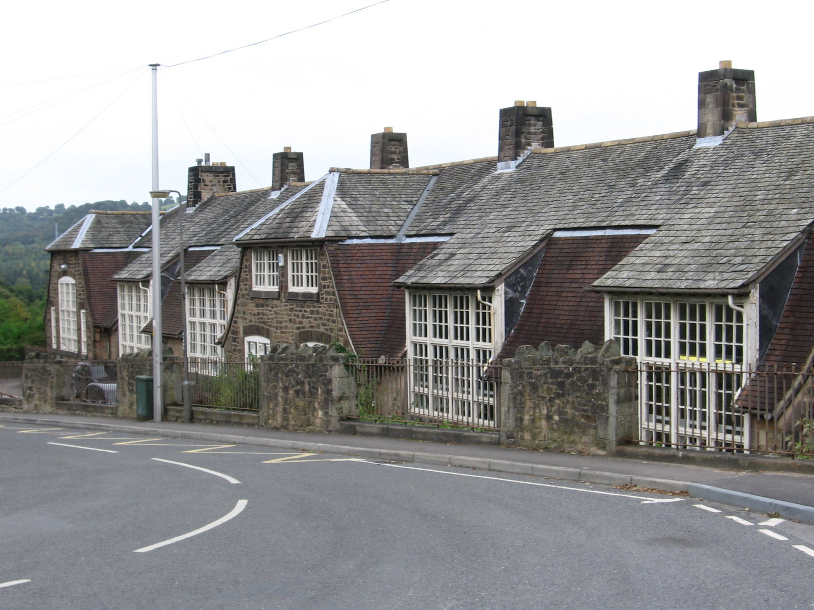 Hackney - Greenaway School